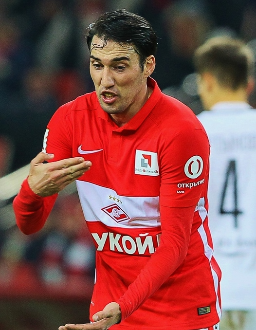 Ivelin Popov